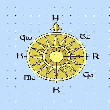 Compass rose in Breton